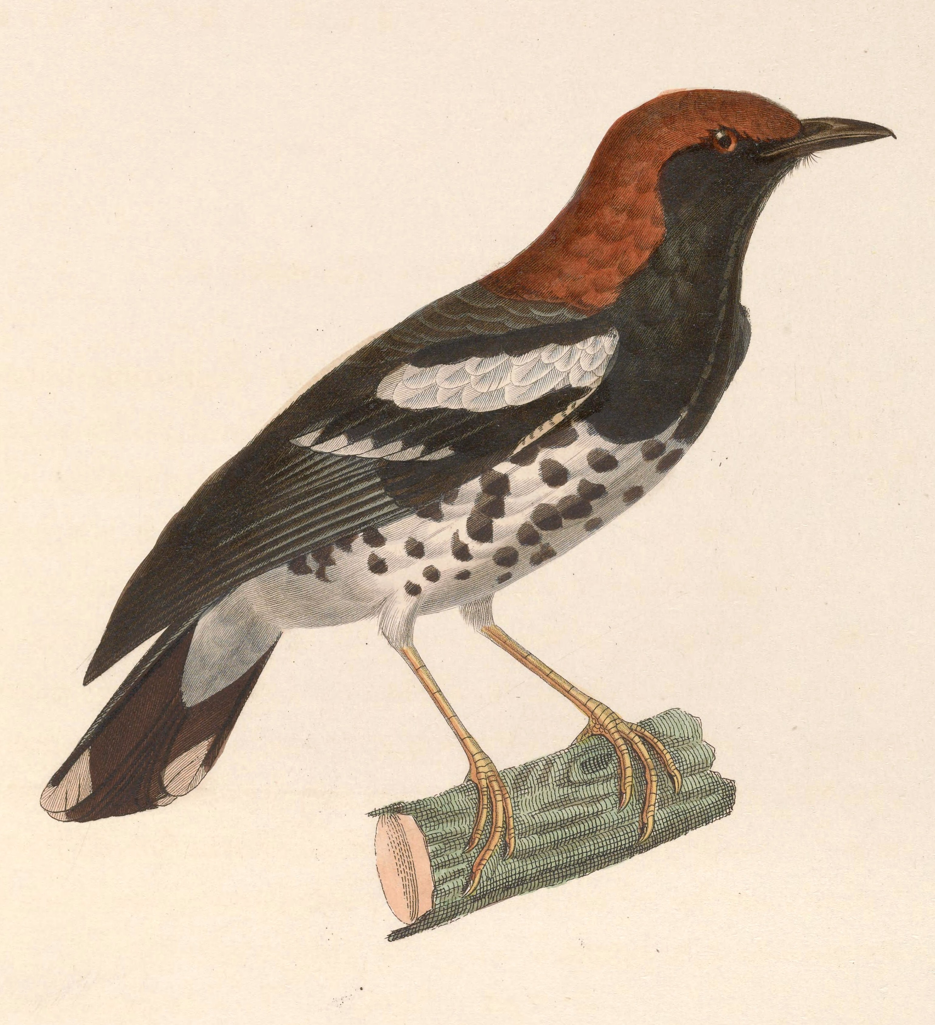 « Turdus interpres » = Geokichla interpres (Chestnut-capped Thrush) - male